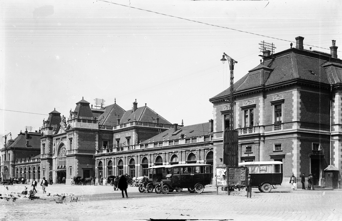 Cluj-napoca Railway Station Description: Station building, opened in 1870.